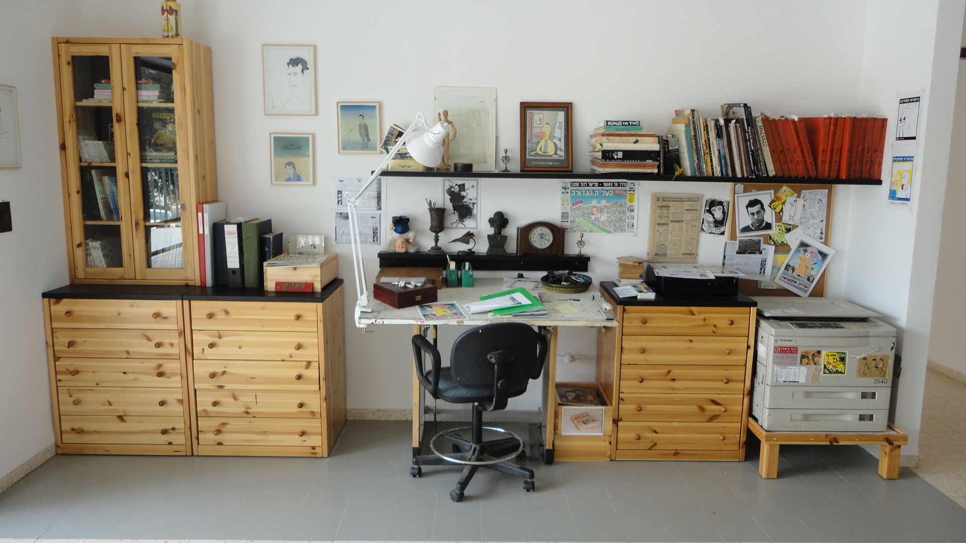 Dudu Geva Studio at Ein Harod Museum of art, 2013